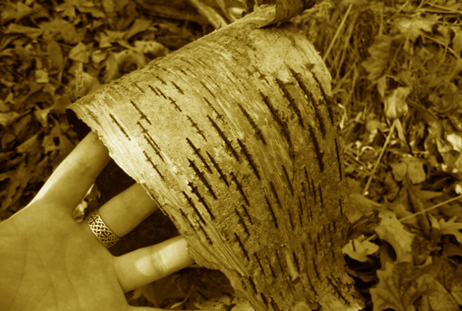 A promotional picture used by the band Celestiial, of which Tanner Anderson is the only member. It shows him, holding a piece of bark- this is relevant due to the bands heavy use of natural imagery within its music.